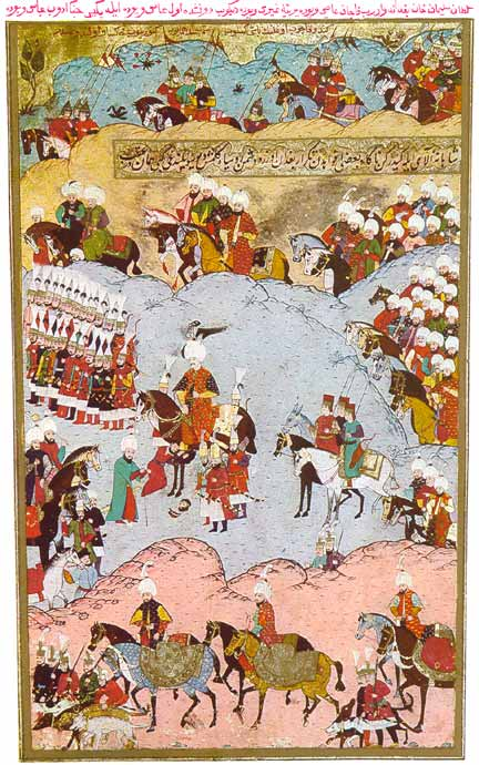 Sultan Suleiman I taking control of Moldova. Ottoman miniature painting from the Hünername, kept at the Topkapı Sarayı Müzesi, Istanbul (Inv. 1524/264°)